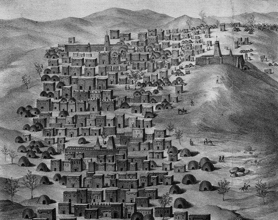 Original caption: "Vue d'une partie de la ville de Temboctou, prise du sommet d'une colline, à l'Est-Nord-Est." Timbuktu looking west. Caillié had visited Timbuktu is 1828. Three mosques are depicted. In the foreground is the Sidi Yahia Mosque. On the right hand side is the Sankoré Mosque. In the middle distance is the Grand Mosque (Djingareyber Mosque).